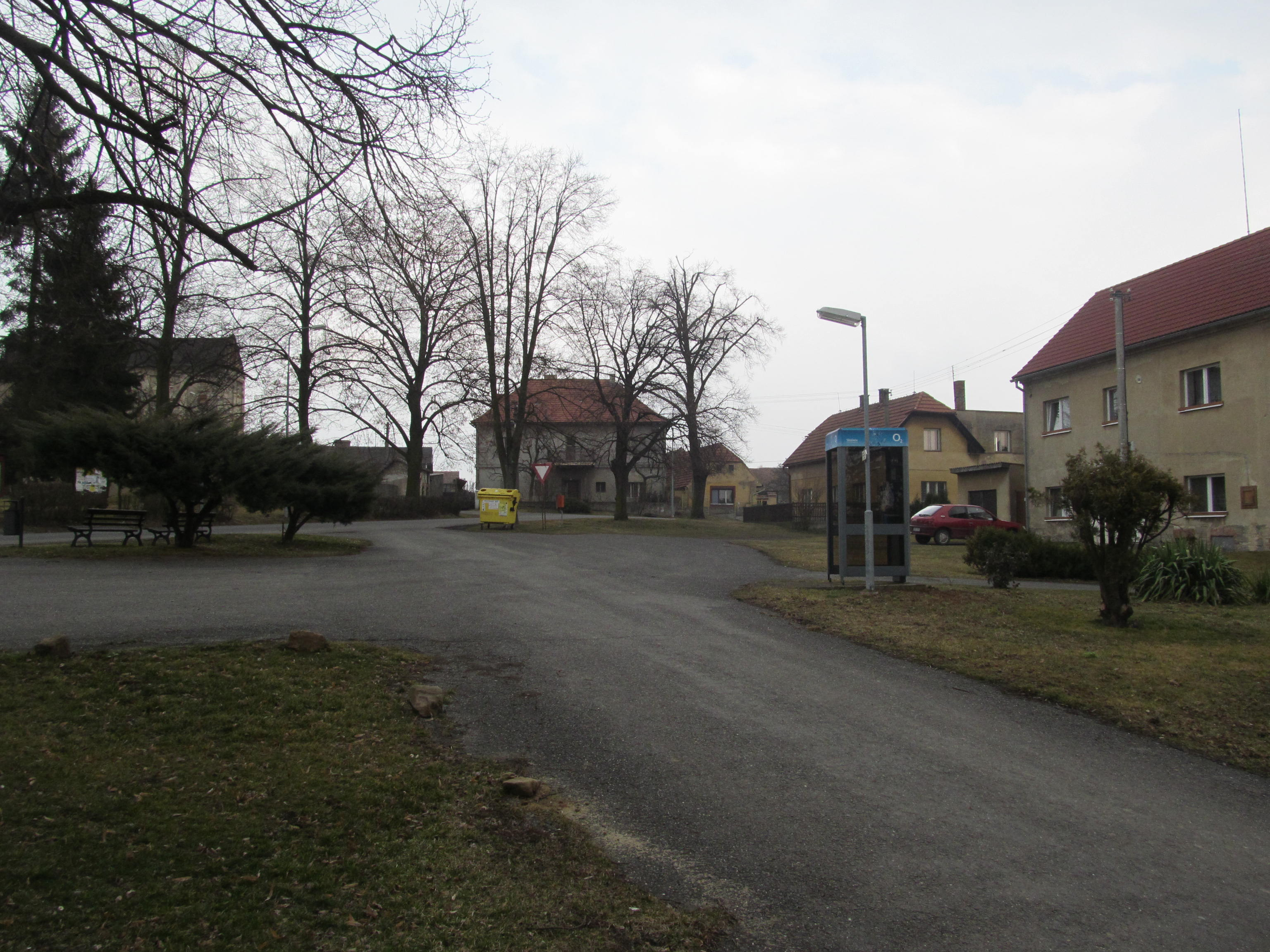 Village square in Nová Ves